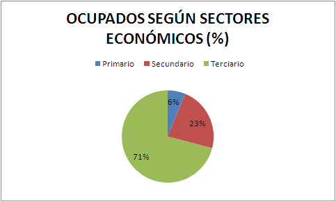 OCUPADOS SEGÚN SECTORES ECONÓMICOS (%)